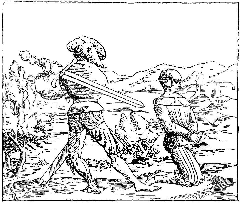 Fac-simile of a Miniature in the "Cosmographie Universelle" of Munster: in folio, Basle, 1552.